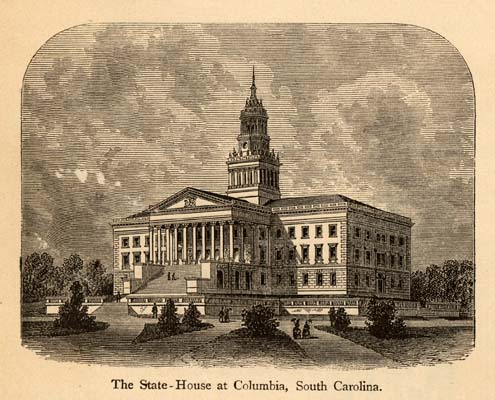 South Carolina State House. C. 1875